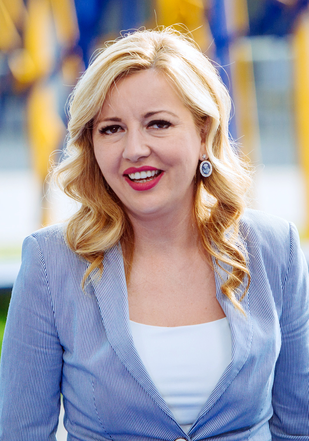 Margareta Mađerić, State Secretary, Ministry for Demography, Family, Youth and Social Policy, Croatia Photo: Arno Mikkor (EU2017EE)